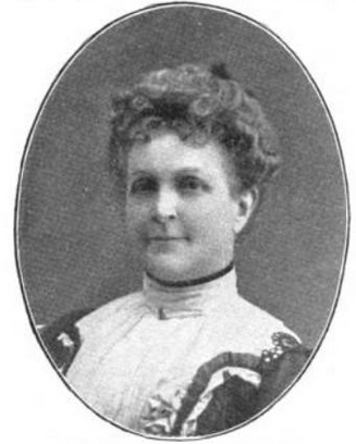 American author Carolina Abbot Stanley (1849-1919) circa 1904